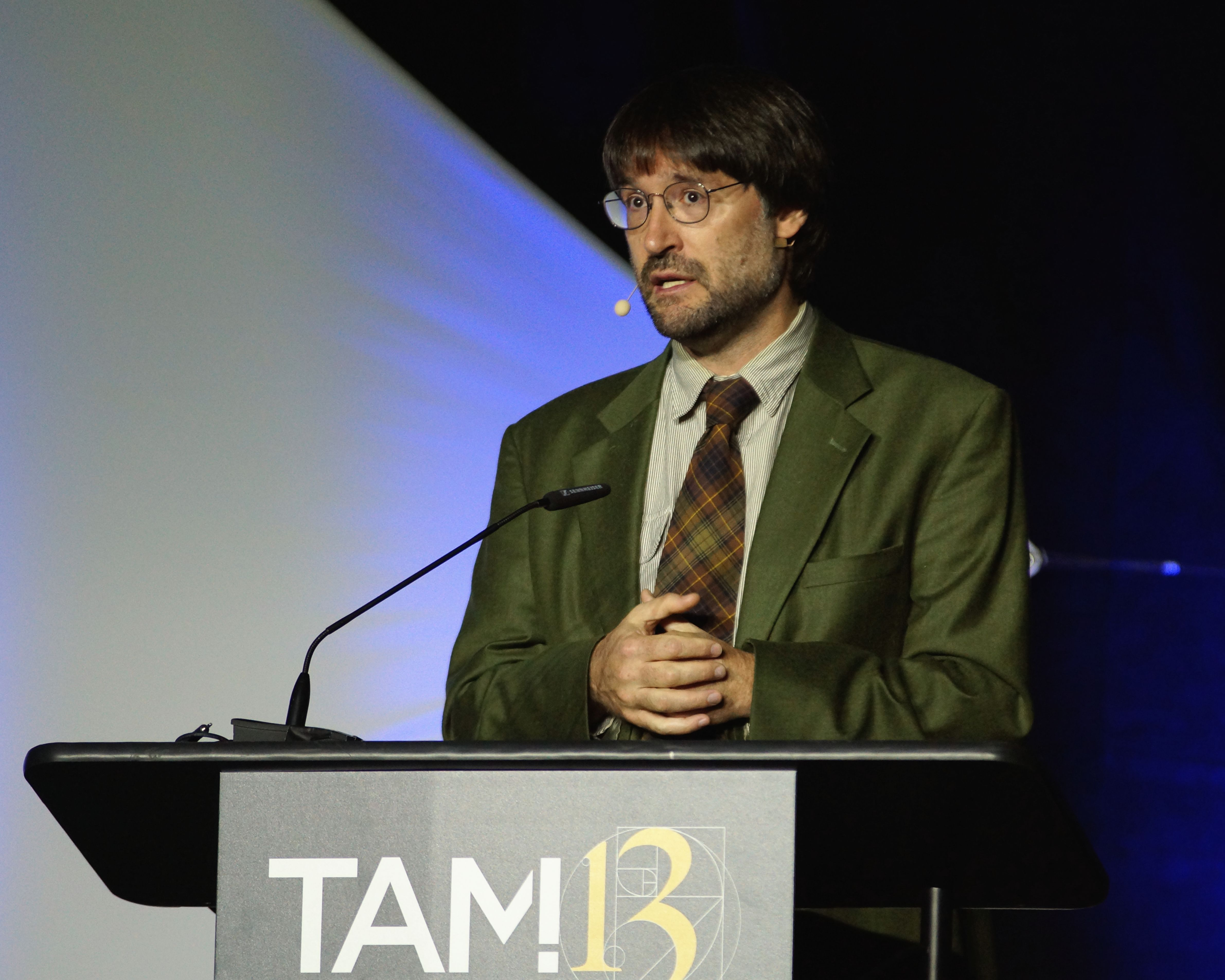 Dr. Taner Edis speaks on the topic "What Would it Take for a Woo-Woo Idea to Succeed?" at The Amaz!ng Meeting, July 17, 2015 at Tropicana Las Vegas, Nevada.